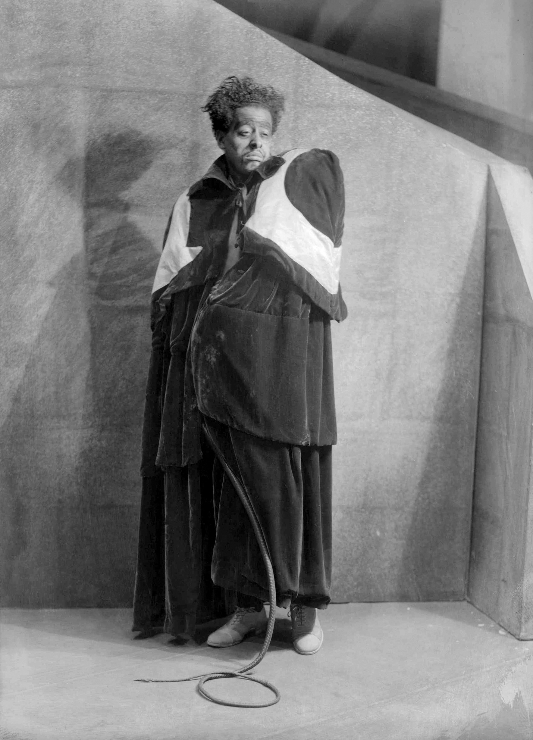 Photograph of Eric Burroughs as Hecate in the Federal Theatre Project production of Macbeth at the Lafayette Theatre, Harlem